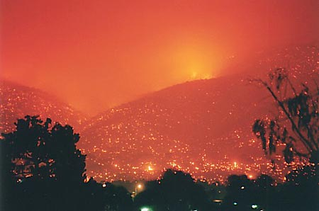 2003 Canberra firestorm